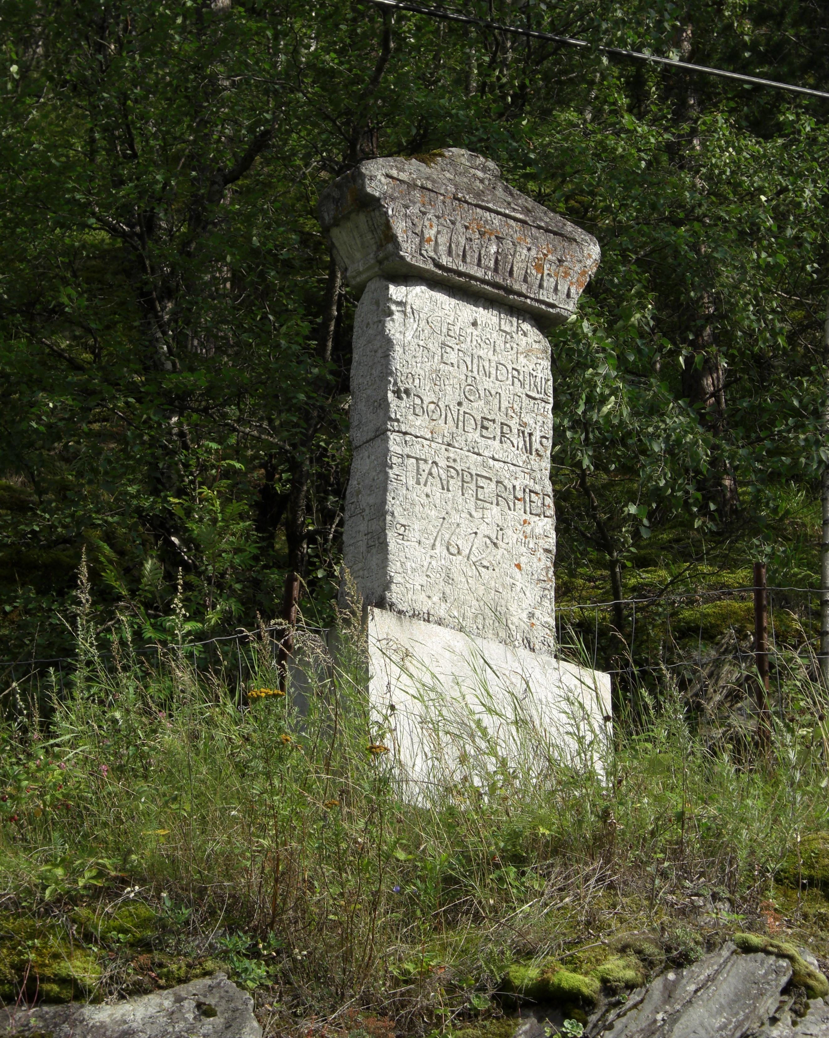 The Sinclair memorial monument, Kringen